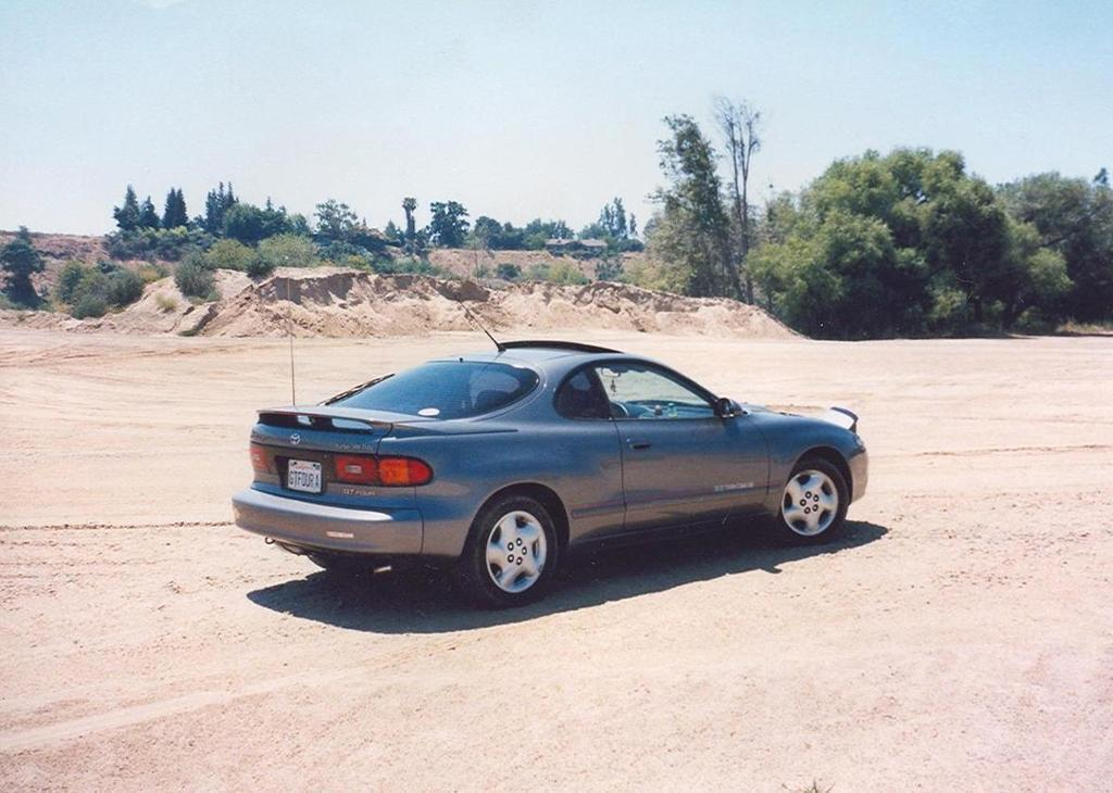 Rear view of 1993 Toyota Celica GT-Four All-Trac Turbo (ST185L-BLMVZA) shown in Graphite Gray Metallic (colour code 182) , photographed in Fresno, California.